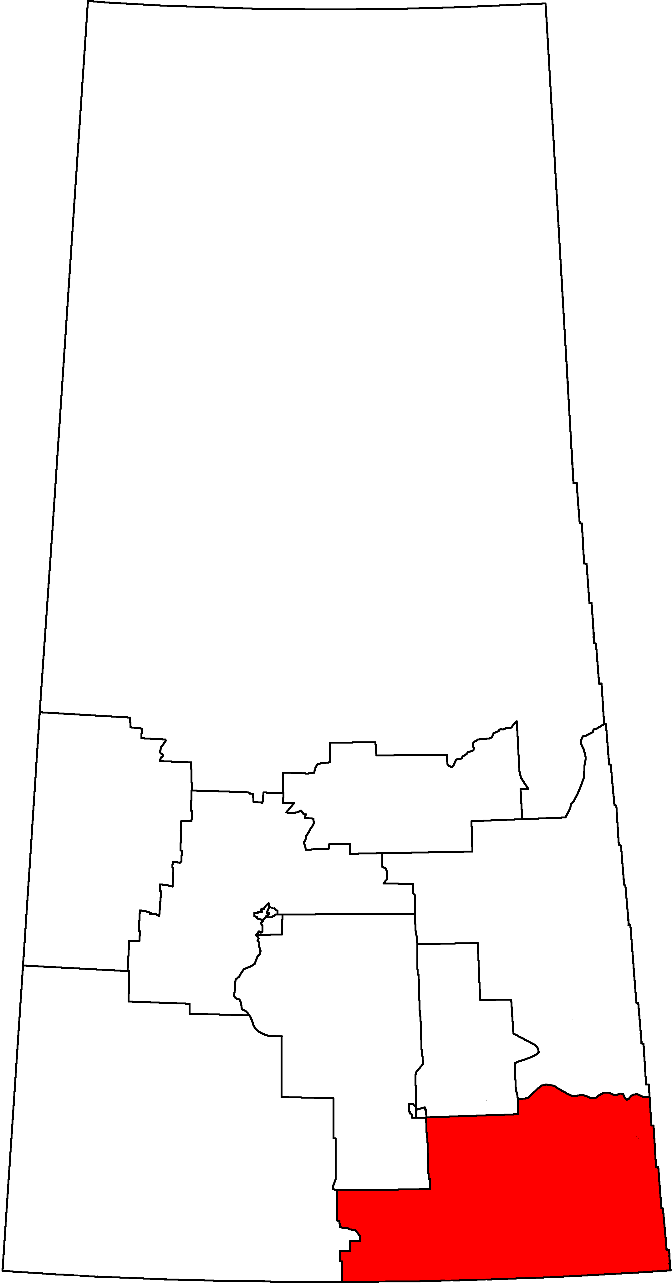 Federal Electoral District in Saskatchewan, Canada as of the 2013 Representation Order.